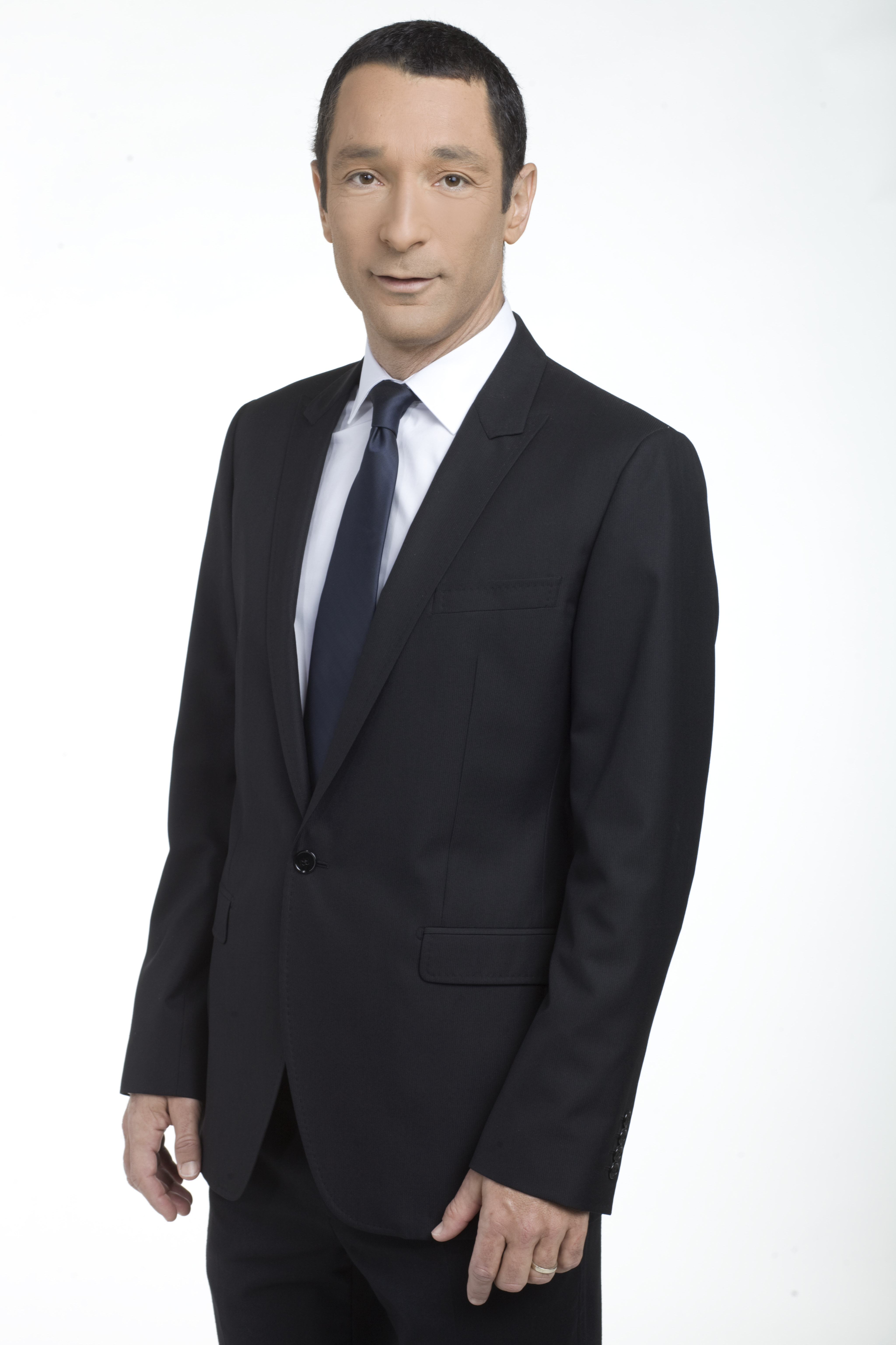 Channel 10 News (Israel) Journalist